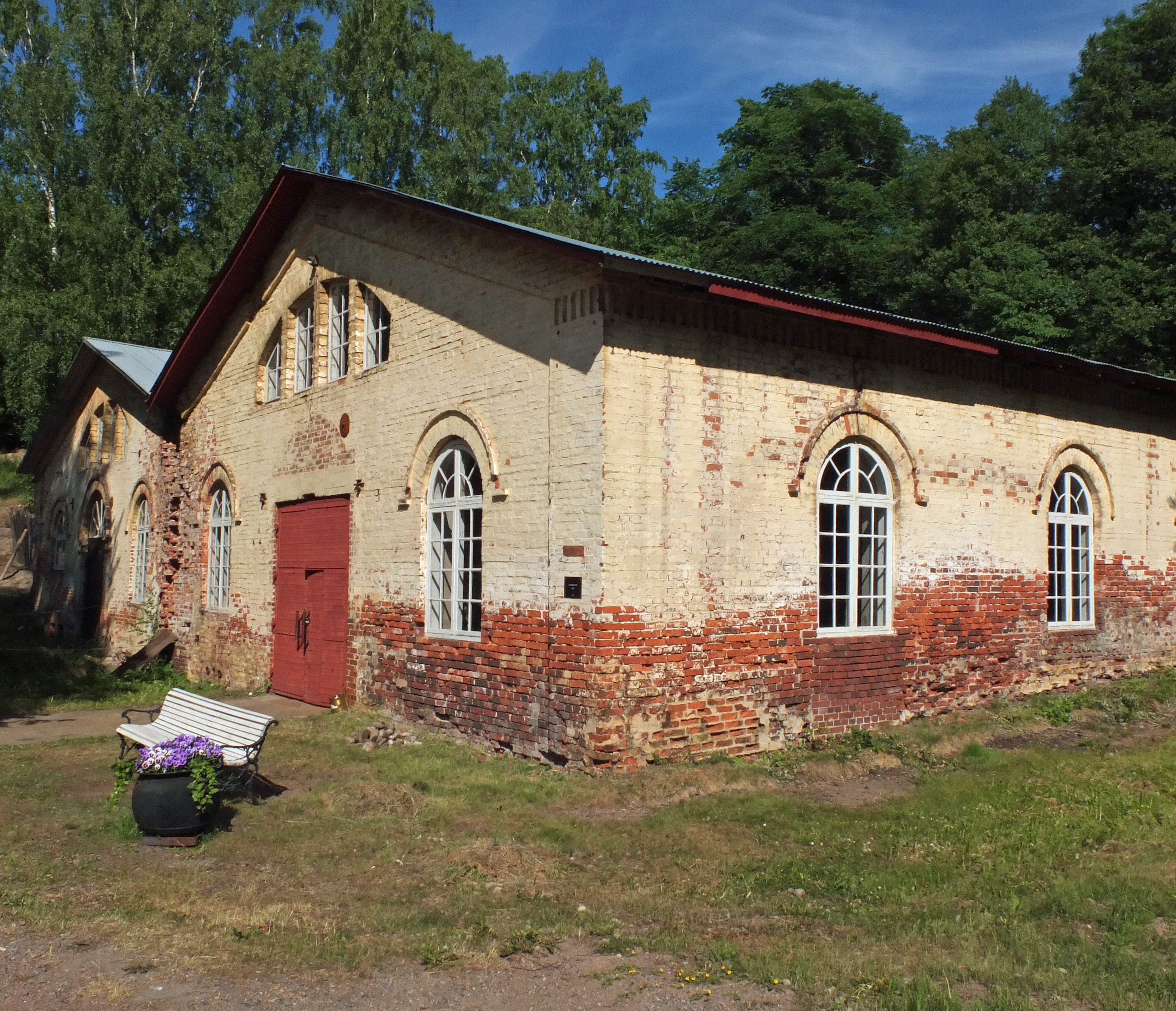 Old rolling mill at Mathildedal Bruk (Mathildedalin Ruukki), Perniö, Salo, Finland